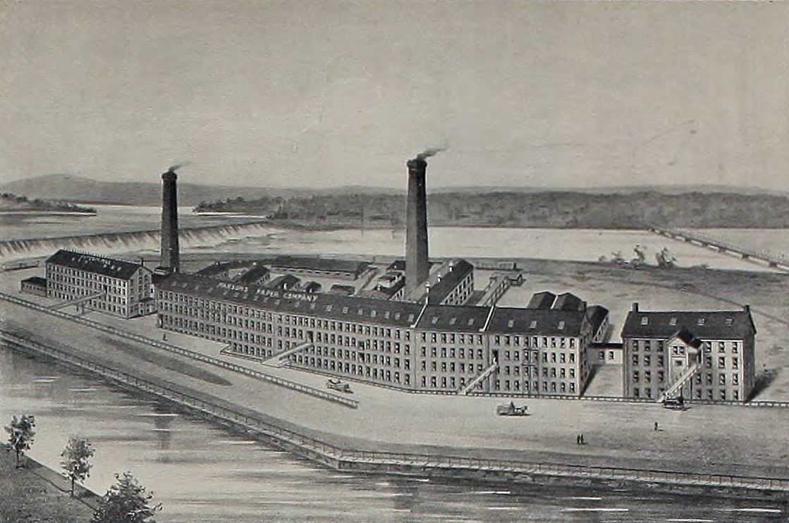 The first mill of the Parsons Paper Company, with additions, as it appeared in 1897.